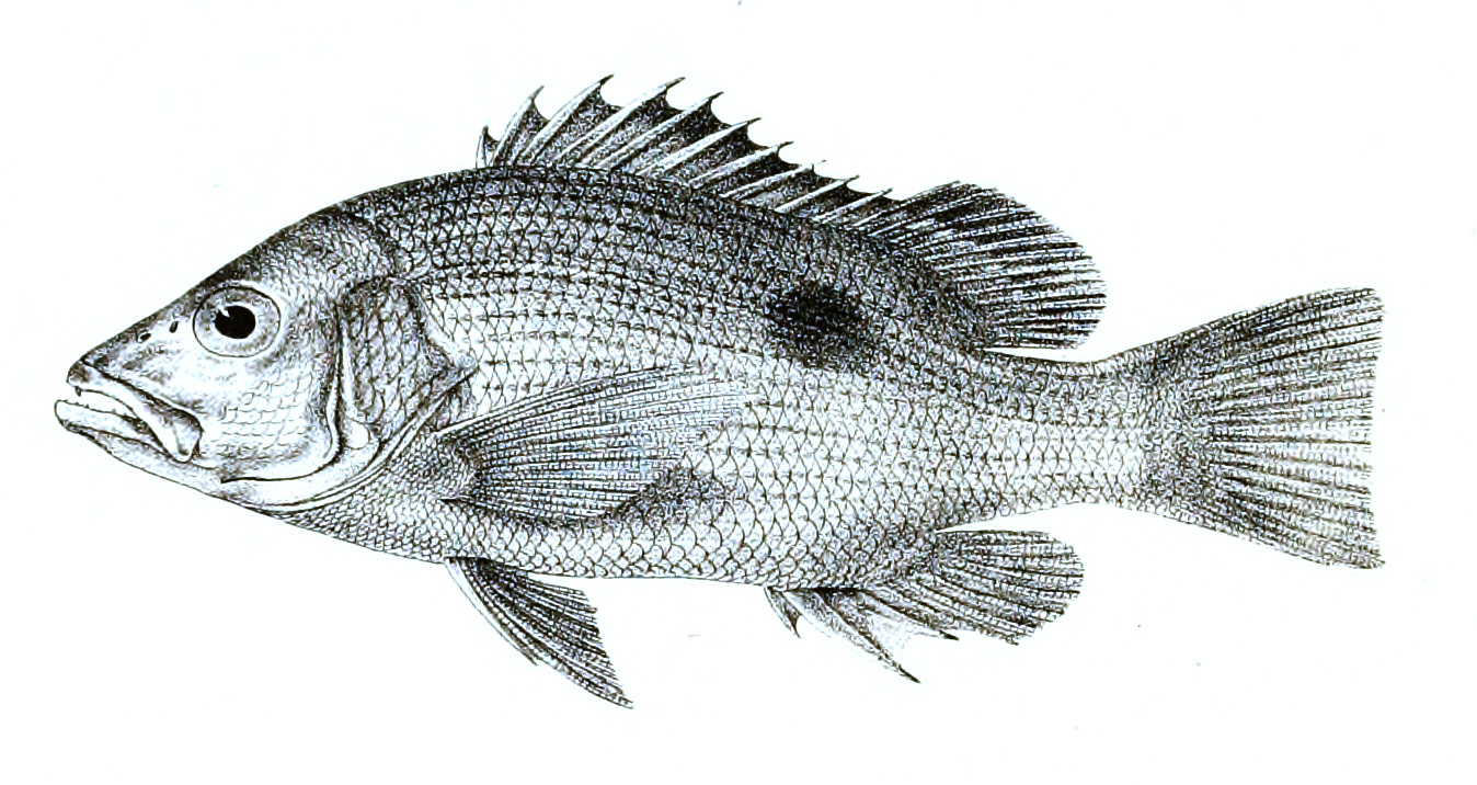 The species names / identity need verification. The original plates showed the fishes facing right and have have been flipped here. Lutianus johnii